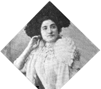 Lucrecia Arana at Teatro de la Zarzuela